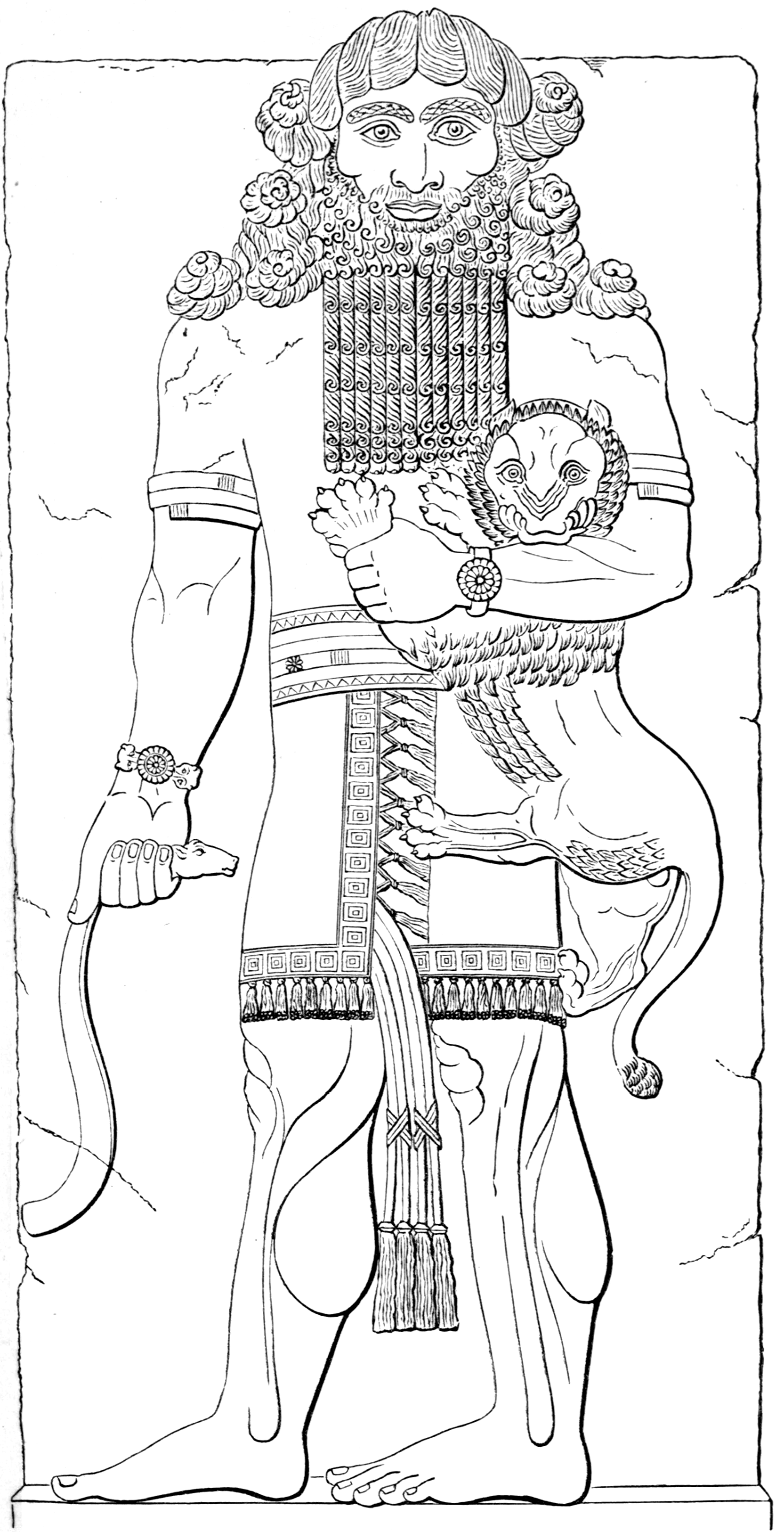 Caption in book reads: "Izdubah strangling a lion. From Khorsabad sculpture".